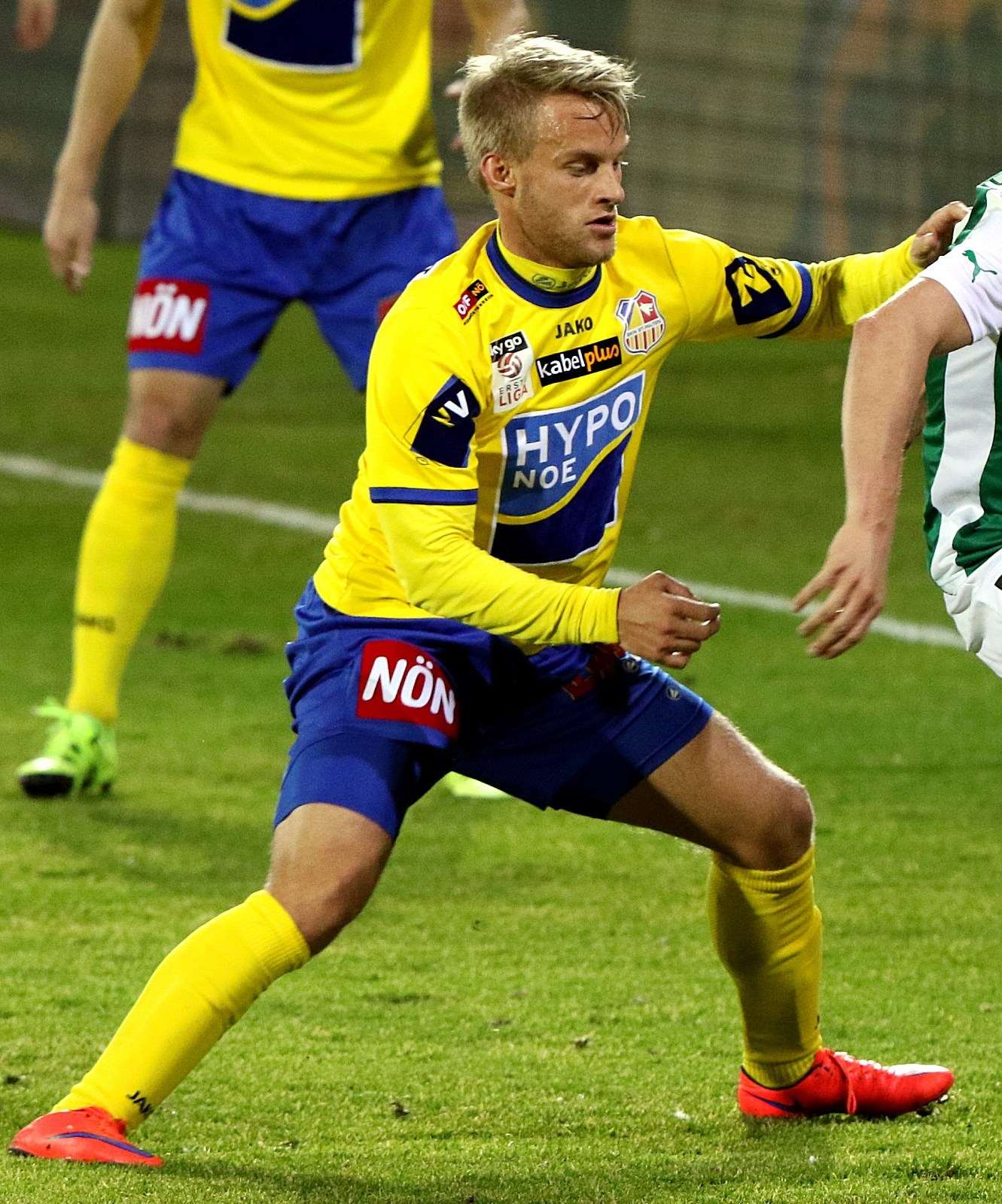 Match of the 2015–16 Austrian Cup – SV Mattersburg (green shirts) vs. SKN St. Pölten (yellow shirts) 1-2 (0-1) at 2016-02-09 in Pappelstadion, Mattersburg – The photo shows from left to right: Patrick Schagerl, Thorsten Röcher and Manuel Hartl.